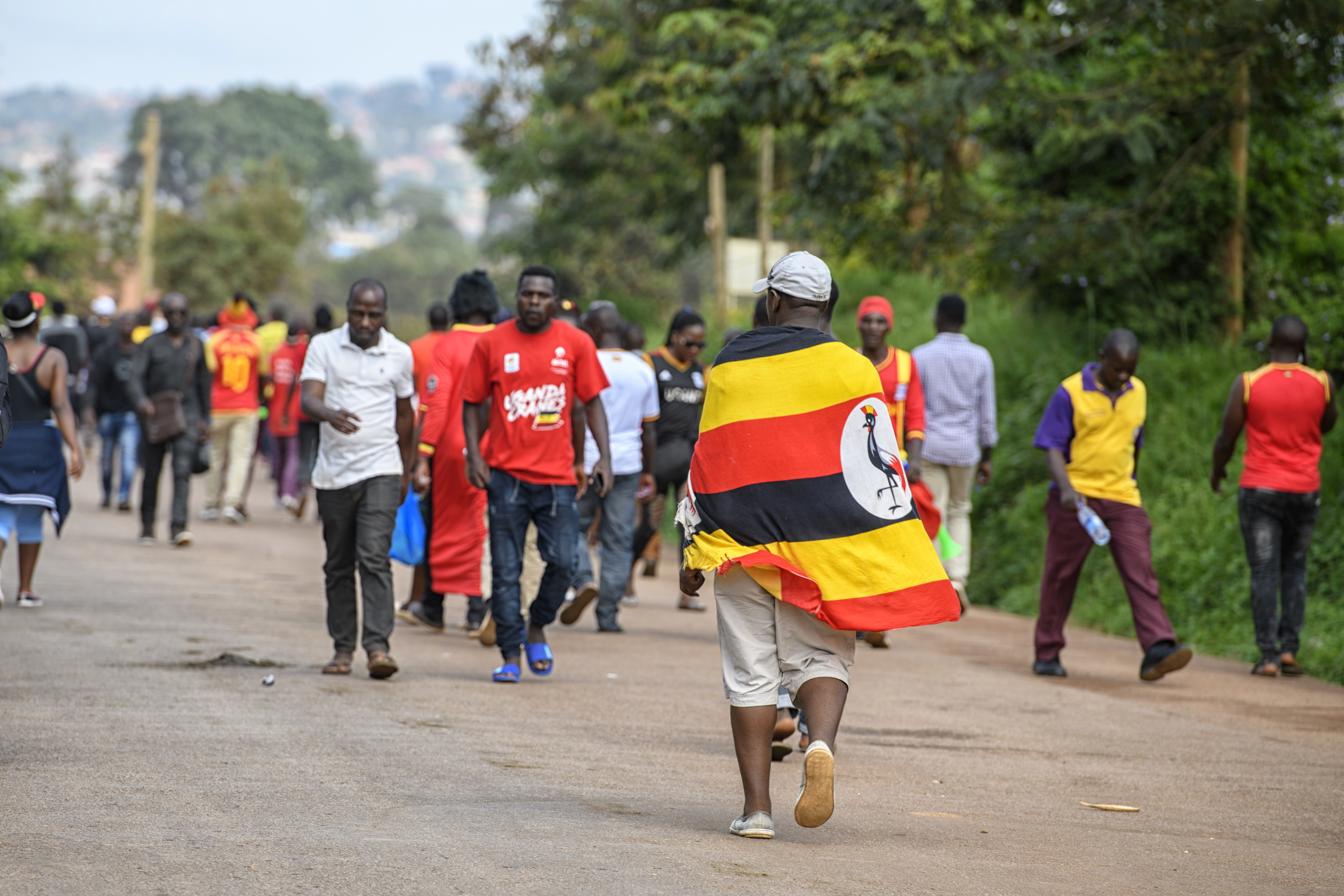 Uganda played Cape Verde on the 17th November 2018. Uganda won the game 1:0 and qualified to the African Cup of Nations (AFCON) in Cameroon in 2019.